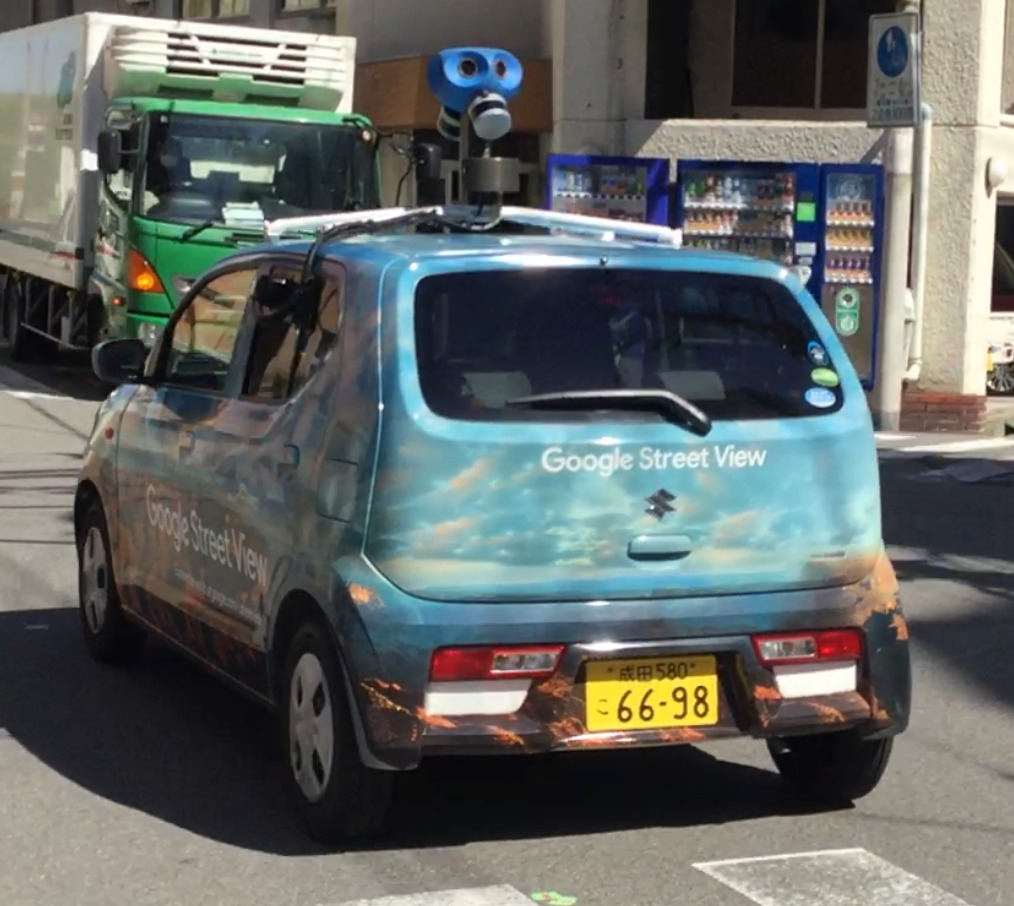 Suzuki Alto google Street View Car in Japan